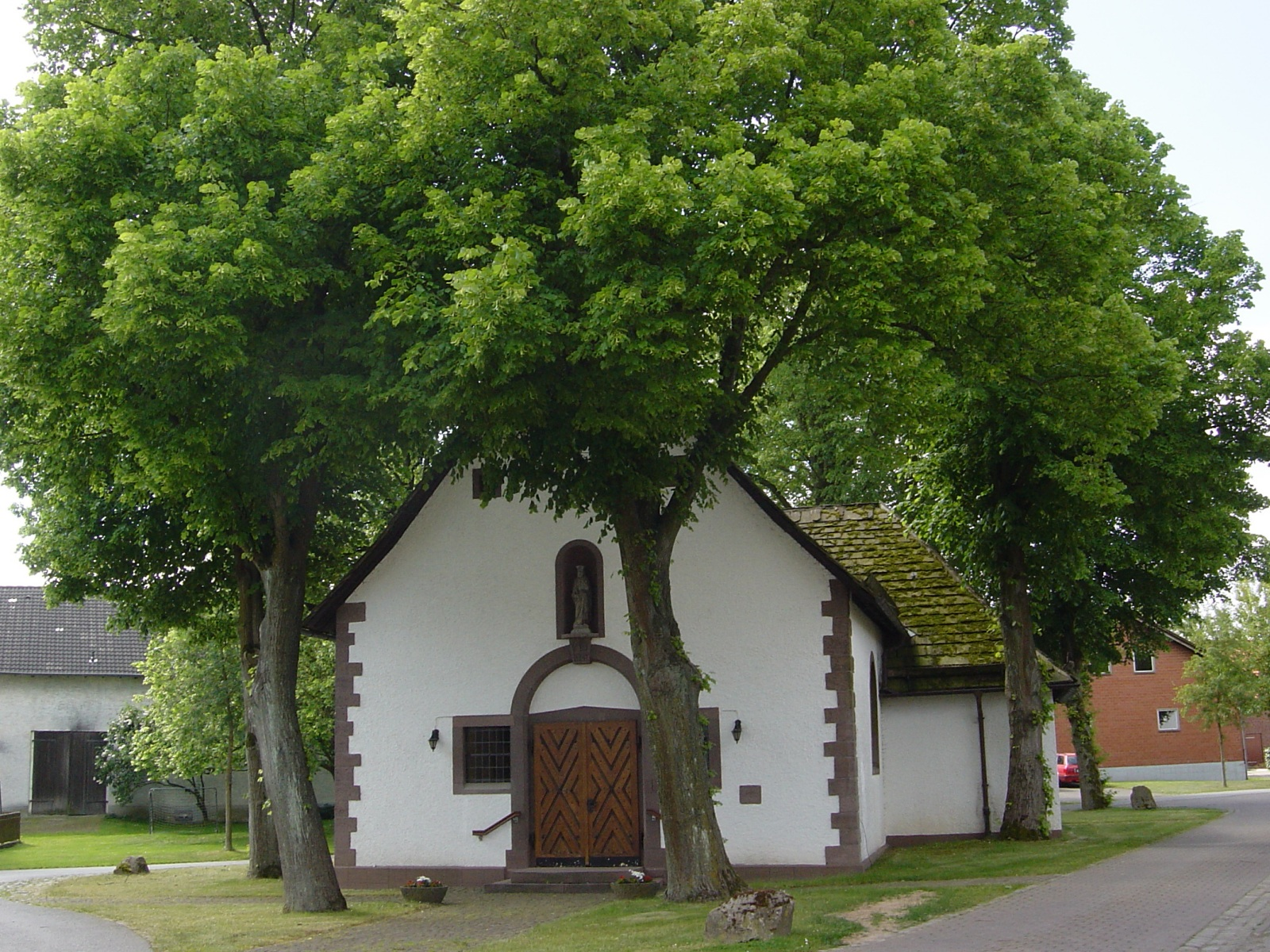 Chapel Bremerberg (Germany)